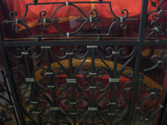 The rib of the Dragon of Atessa that was killed by St. Leucio